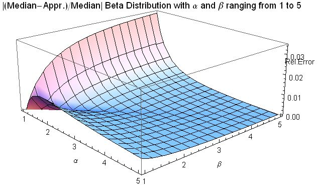 Relative Error for Approximation to Median of Beta Distribution for alpha and beta from 1 to 5